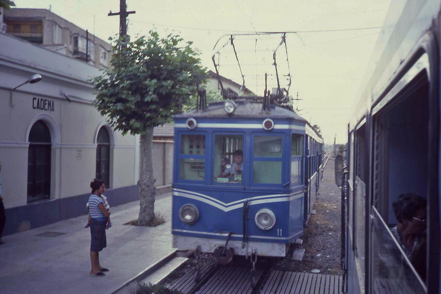 Station stop at Cadena on the FEVE network in Valencia on the line to "El Grau". Notice the sligth bending of the car body.